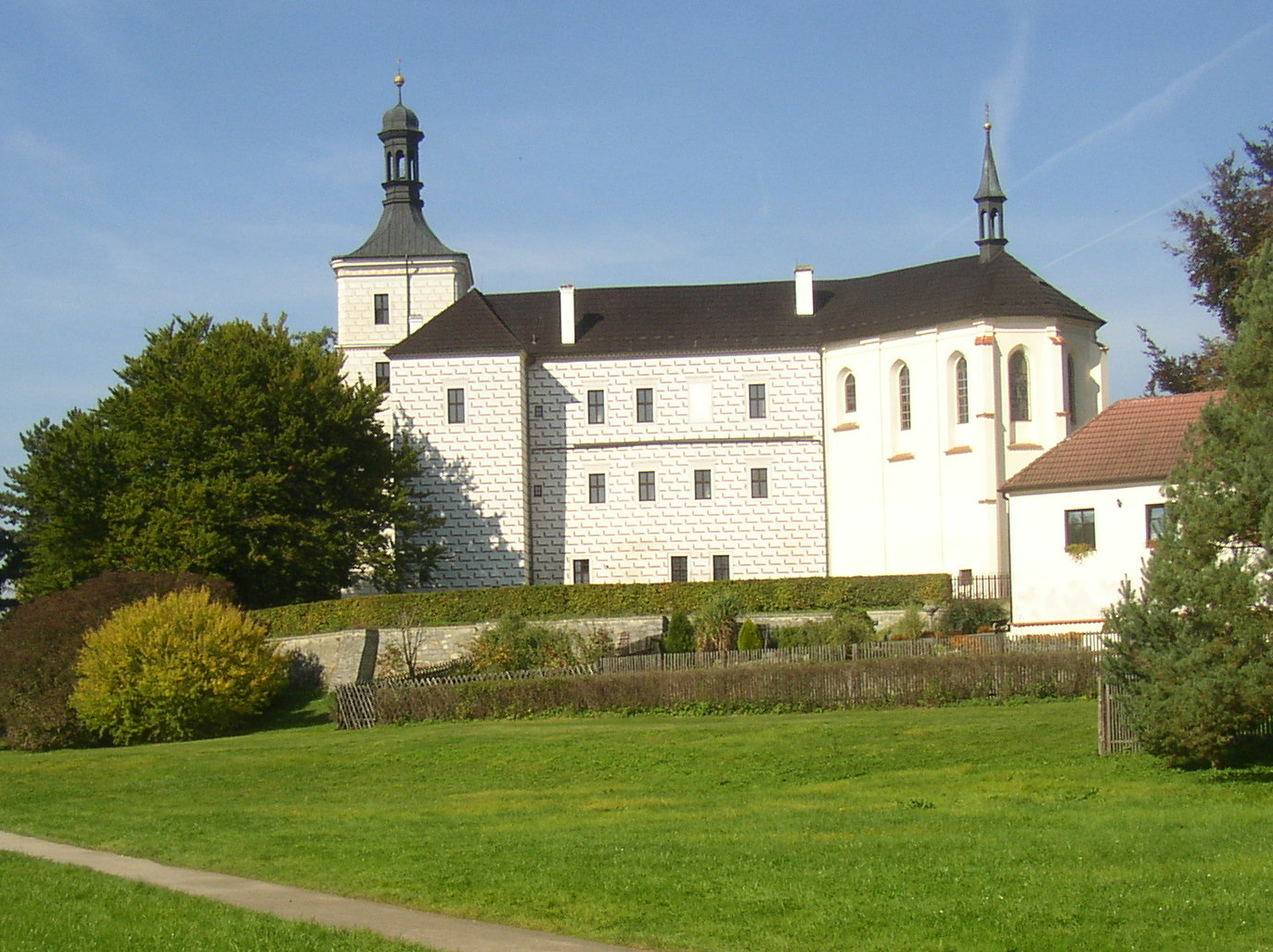 Březnice Chateau, Příbram District, Czech Republic.